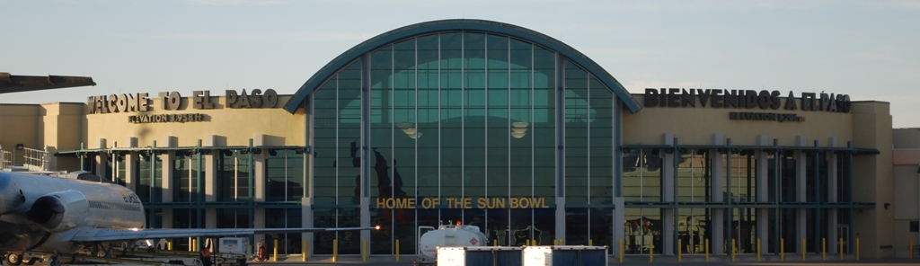 El Paso Intl Airport Front